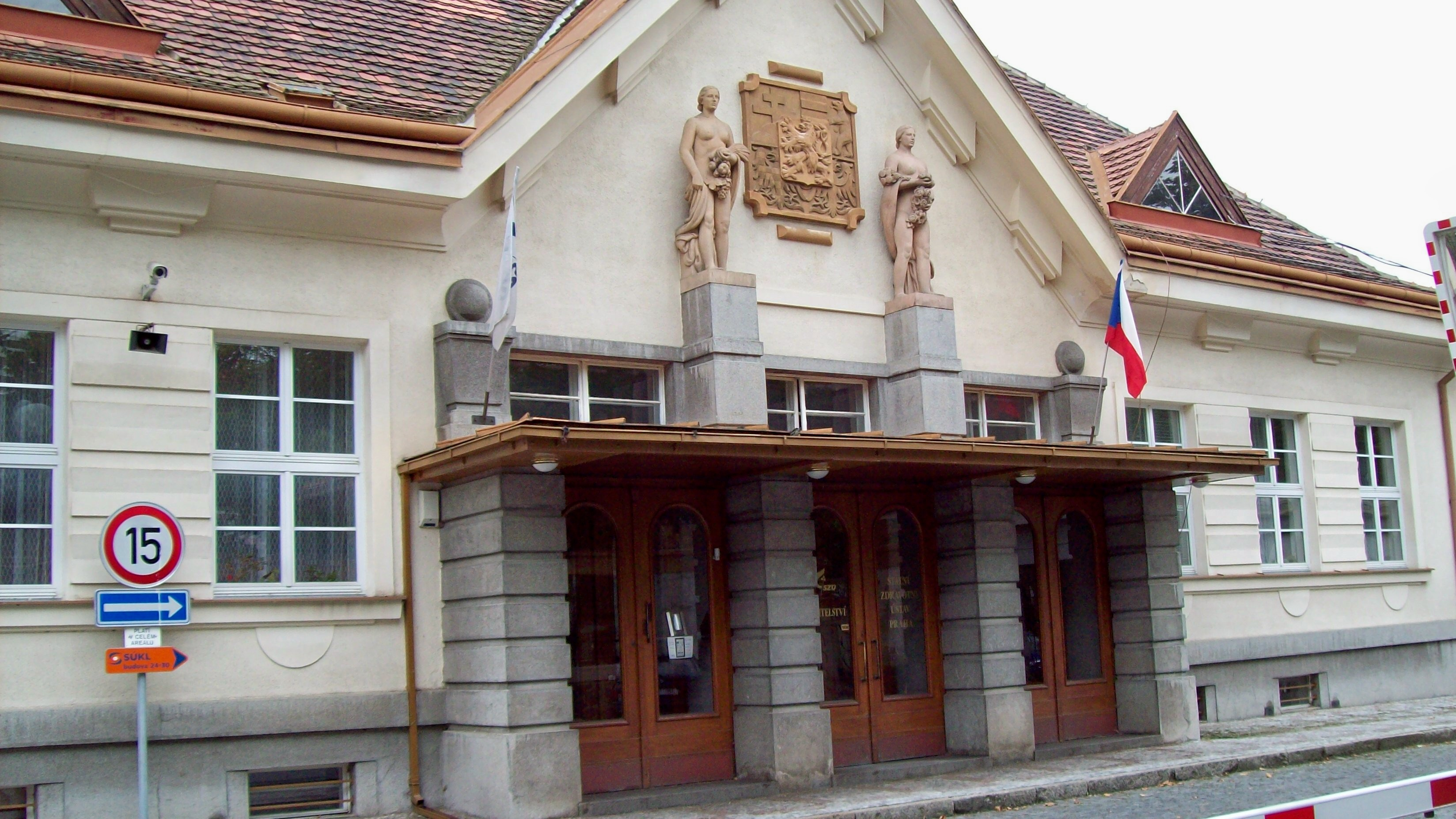 Státní zdravotní ústav, ul. Šrobárova 48, Praha 10.The National Institute of Public Health (NIPH) is a health care establishment in the Czech Republic for hygiene, epidemiology, microbiology and occupational medicine.